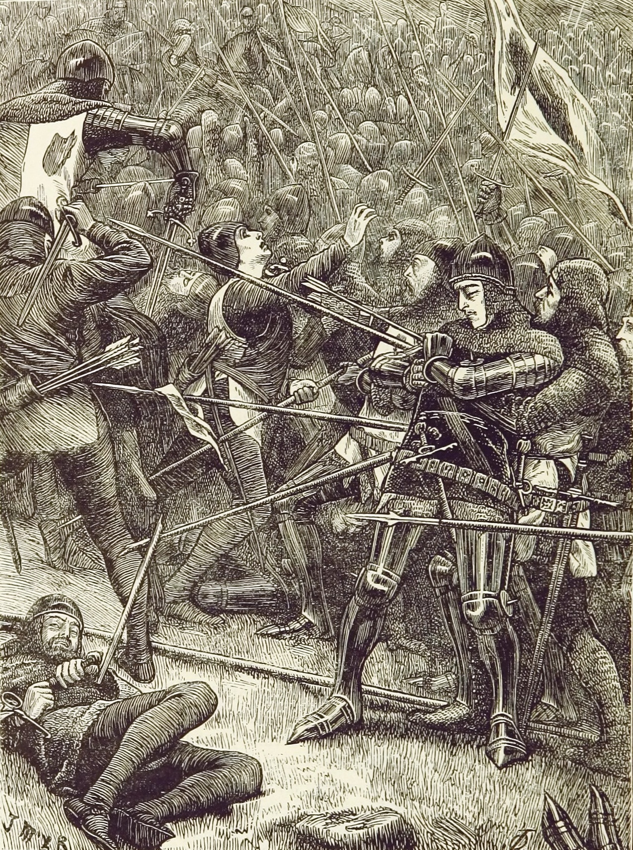 The Scots charge at the Battle of Halidon Hill. It does not go well for them.